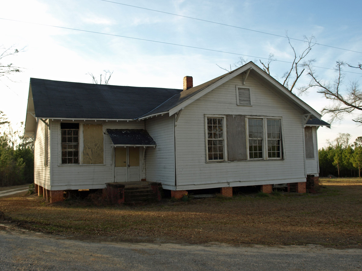 The Tankersley Rosenwald School in Hope Hull (near Montgomery), Alabama